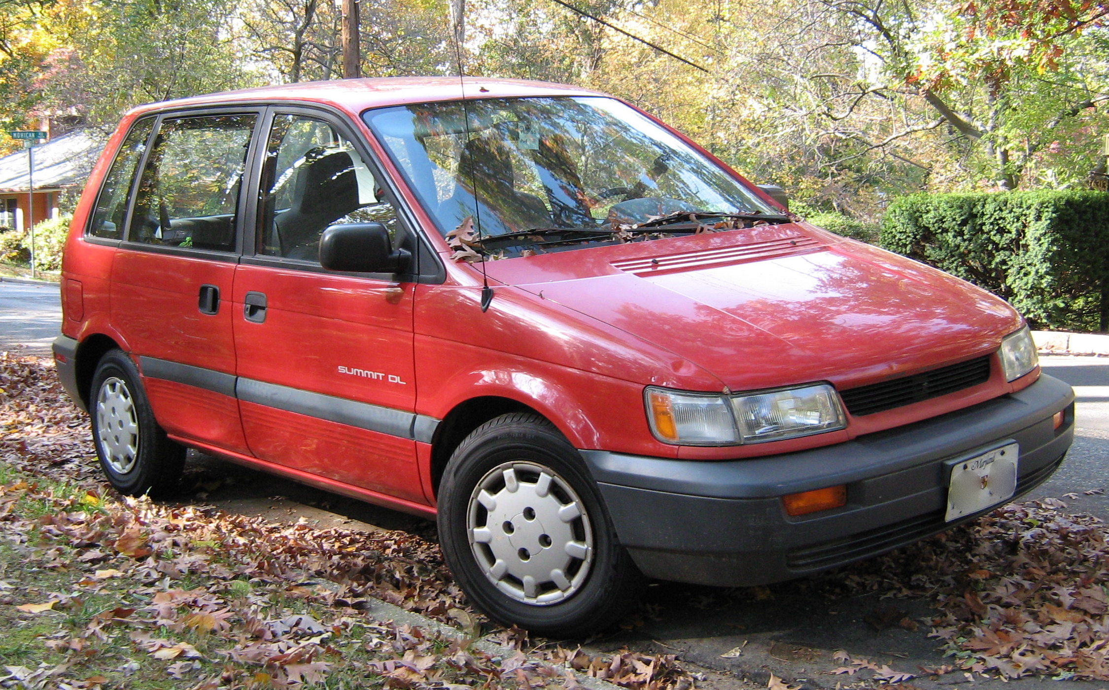 Eagle Summit Wagon - front view - finished in red